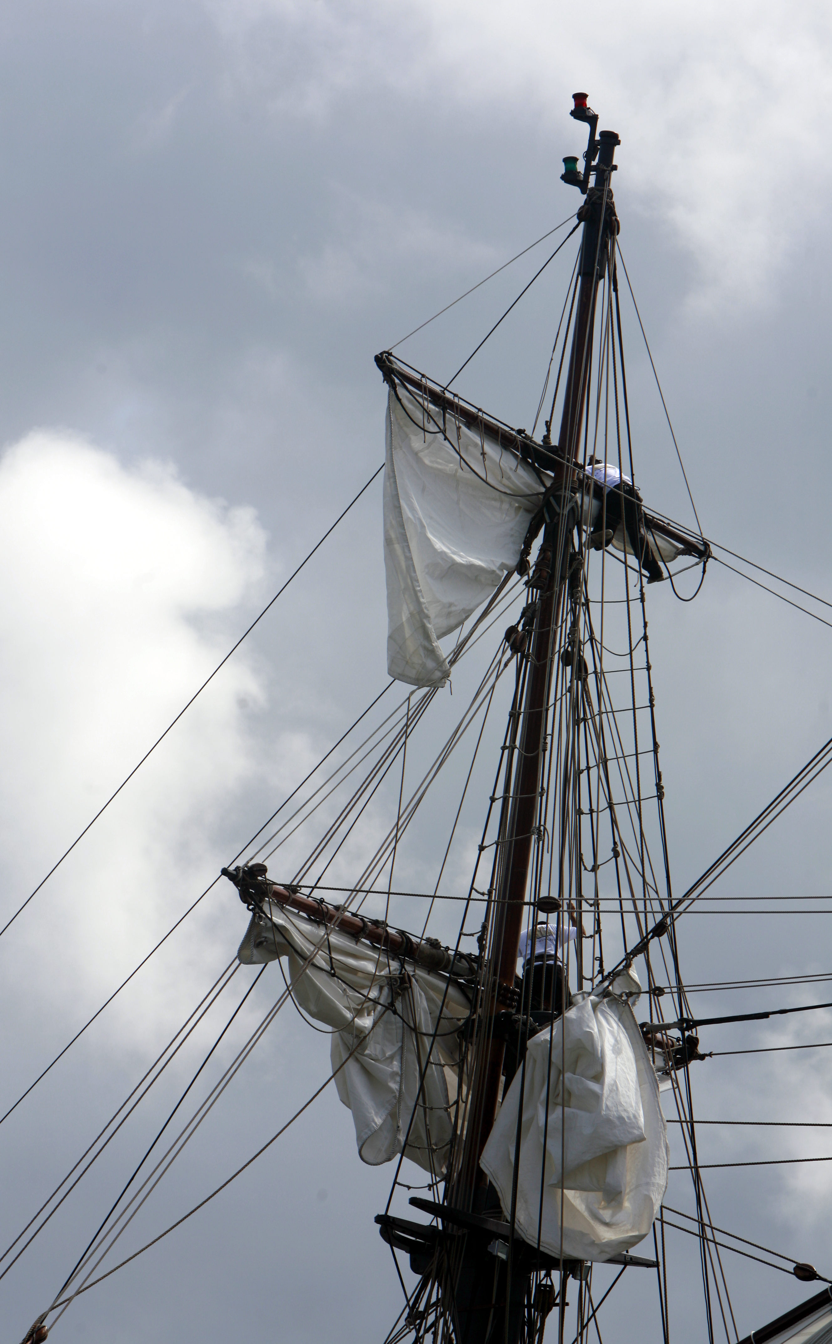 Aviso-schooner Recouvrance in Brest harbour.